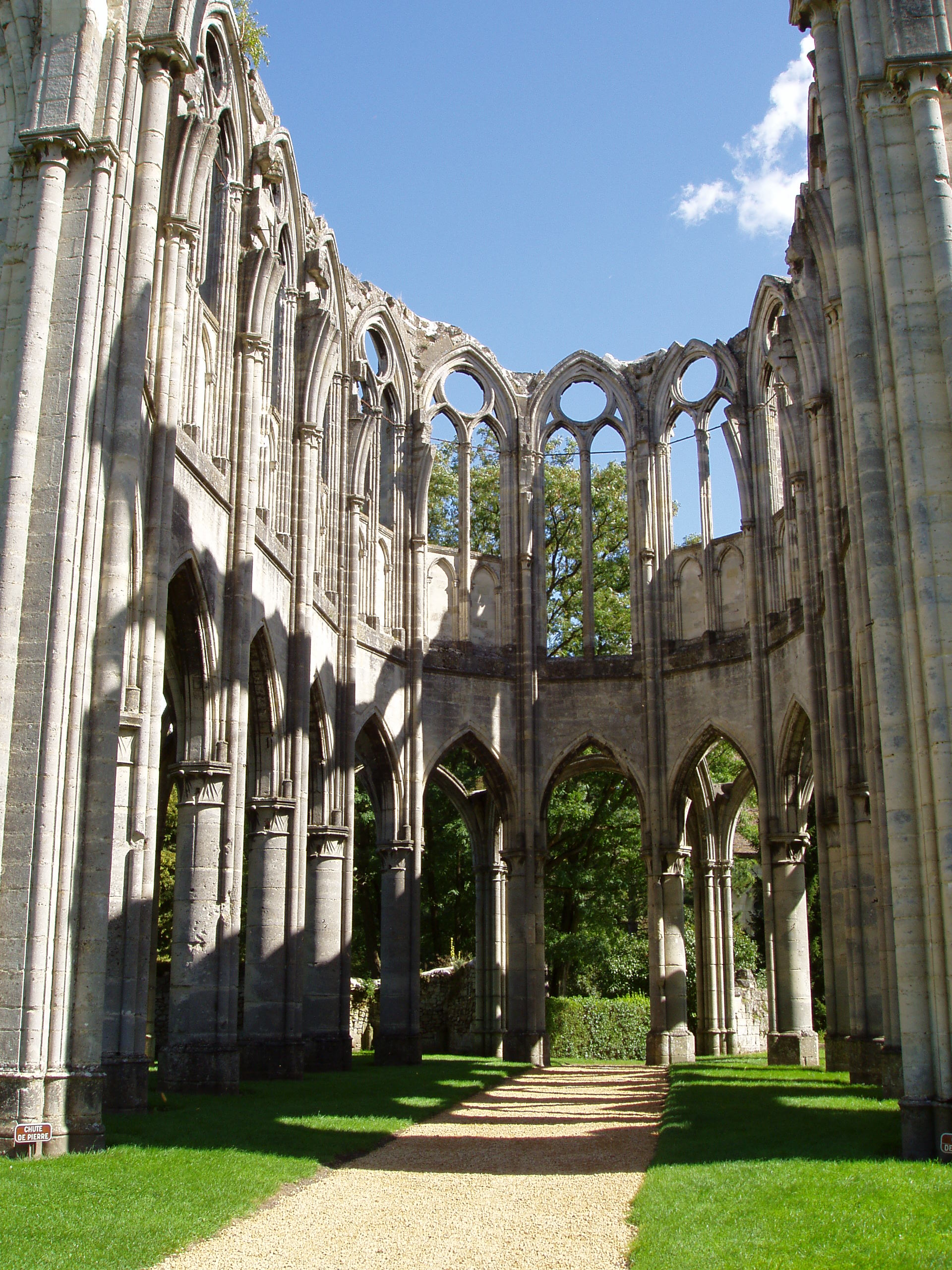 Church ruins of the Cistercian Abbey of Our Lady in Ourscamp, Oise department of France.